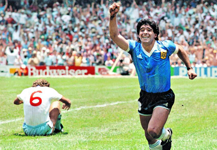 Diego Maradona celebrating his second goal scored to England during the 1986 FIFA World Cup.